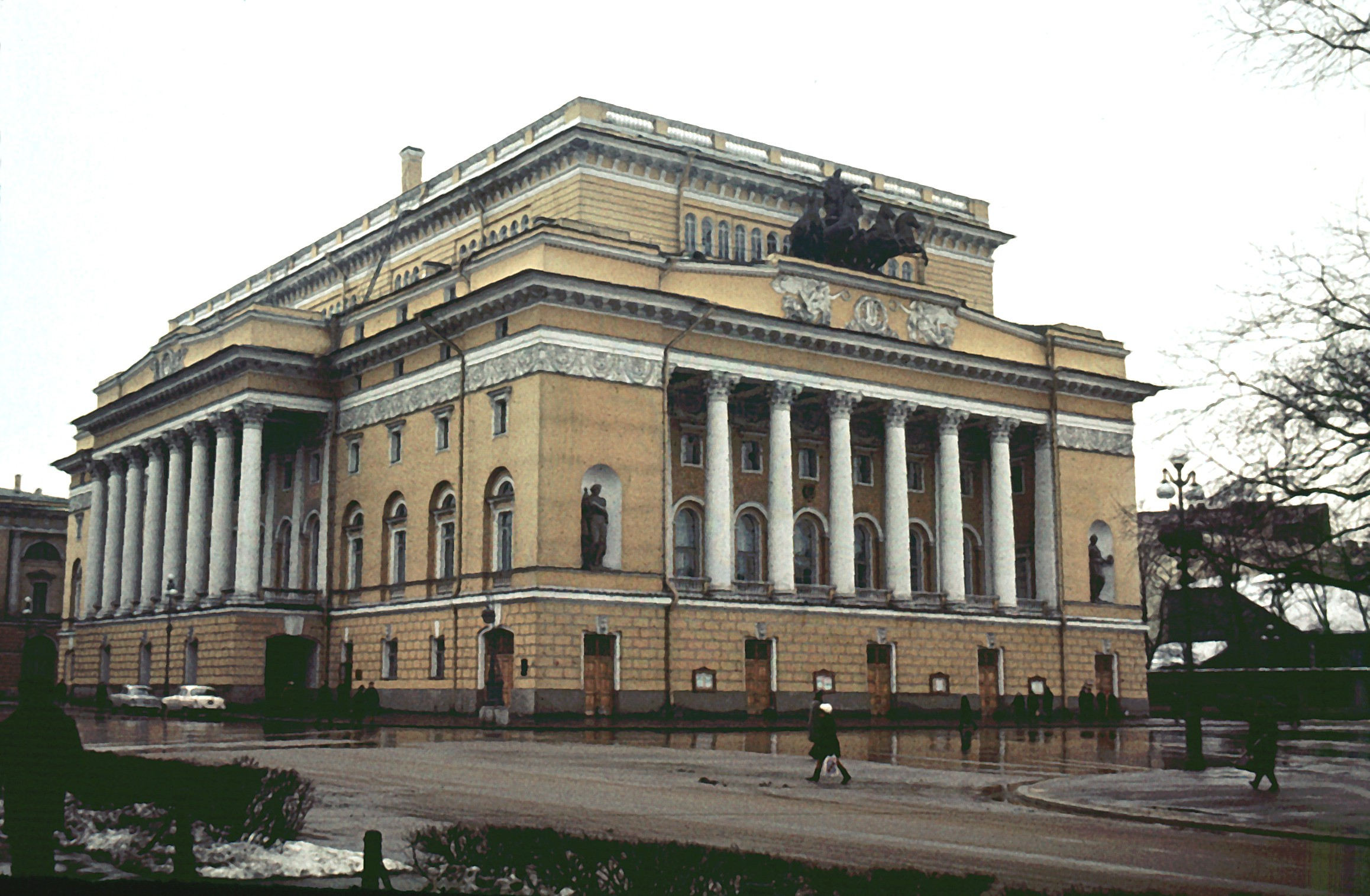 Sankt Petersburg, the Alexandrinsky theatre